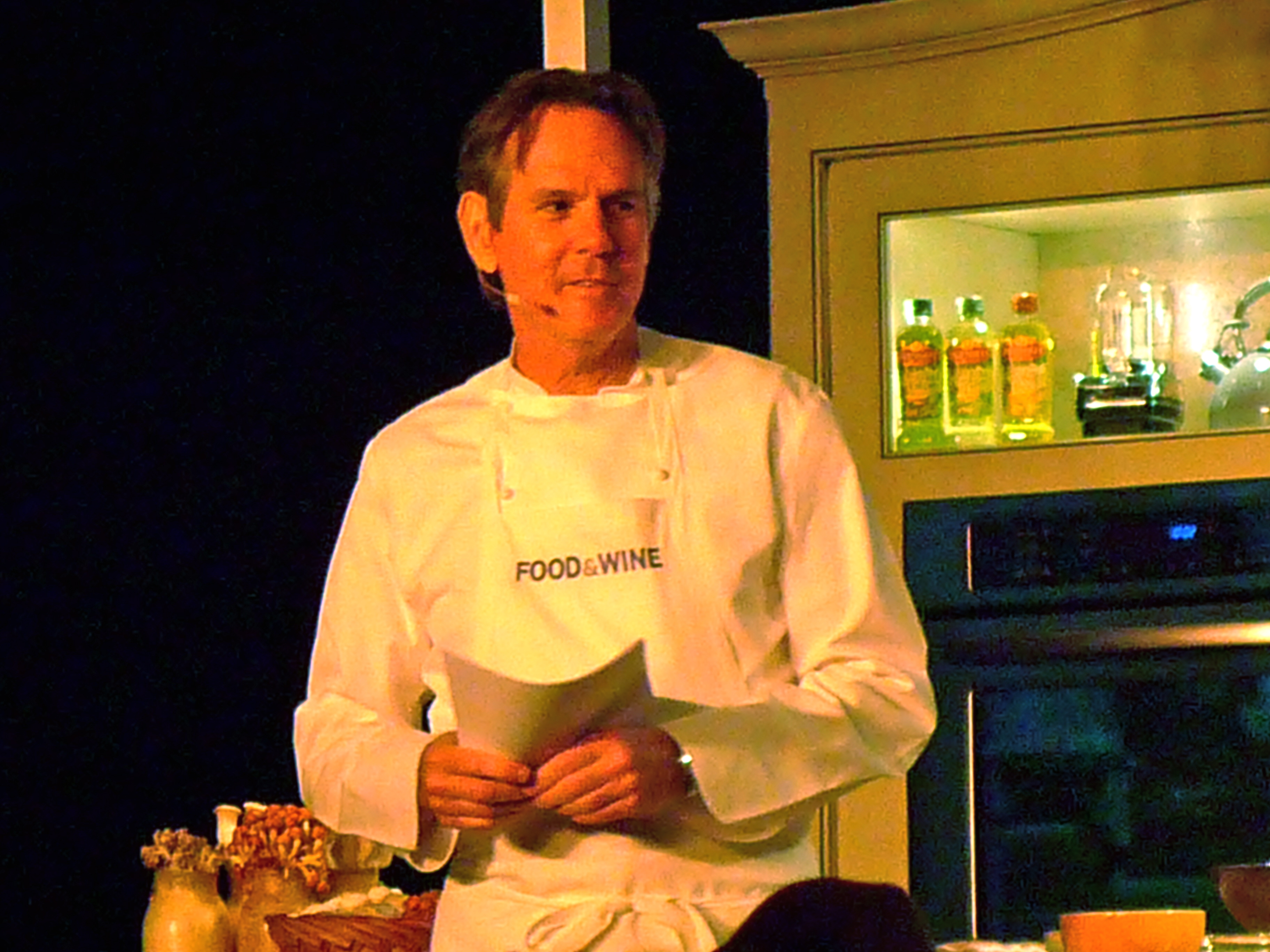 He was very gracious and interesting. Favorite thing I learned - "salt is a flavor enhancer, pepper changes flavor" - and yet we're always putting them together, not thinking of their separate purposes.